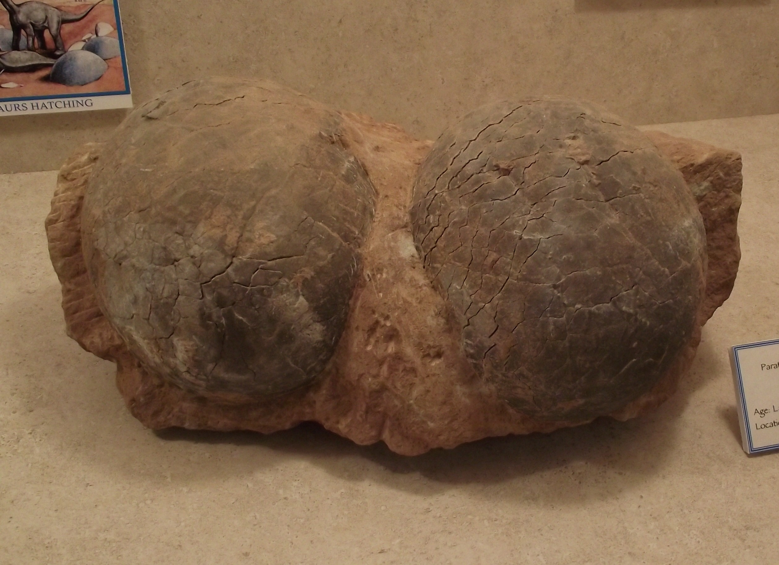 Dinosaur eggs (Dendroolithus sp.) from Kaoguo Formation, Henan, China, on display at the San Diego County Fair, California, USA.